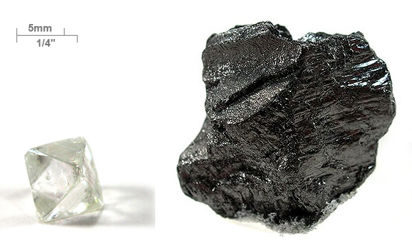 Diamond and graphite shown side by side, for illustrating carbon. Scale is based on a rough approximation. Diamond Locality: South Africa Size: 1.31 carats: 7 x 6 x 6 mm A truly exquisite, super sharp, octahedral crystal of superior quality for a specimen. It is certainly facetable, too. Graphite Locality: El Cochi, Sonora, Mexico Size: thumbnail, 2.5 x 2.4 x 1.2 cm This is a crudely crystallized graphite, colored battleship gray with a resinous luster. I must admit that it is hard to think of this having the the composition, carbon, as diamond. Anyways, a neat locality piece!